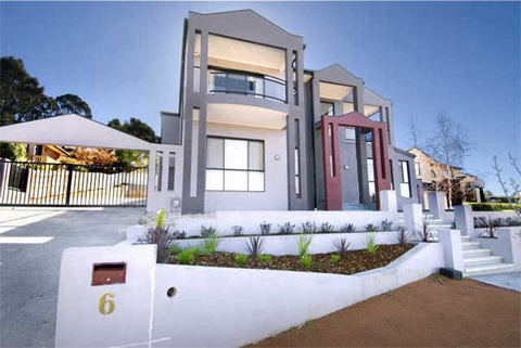 A modern style house in the Canberra suburb of Forde.